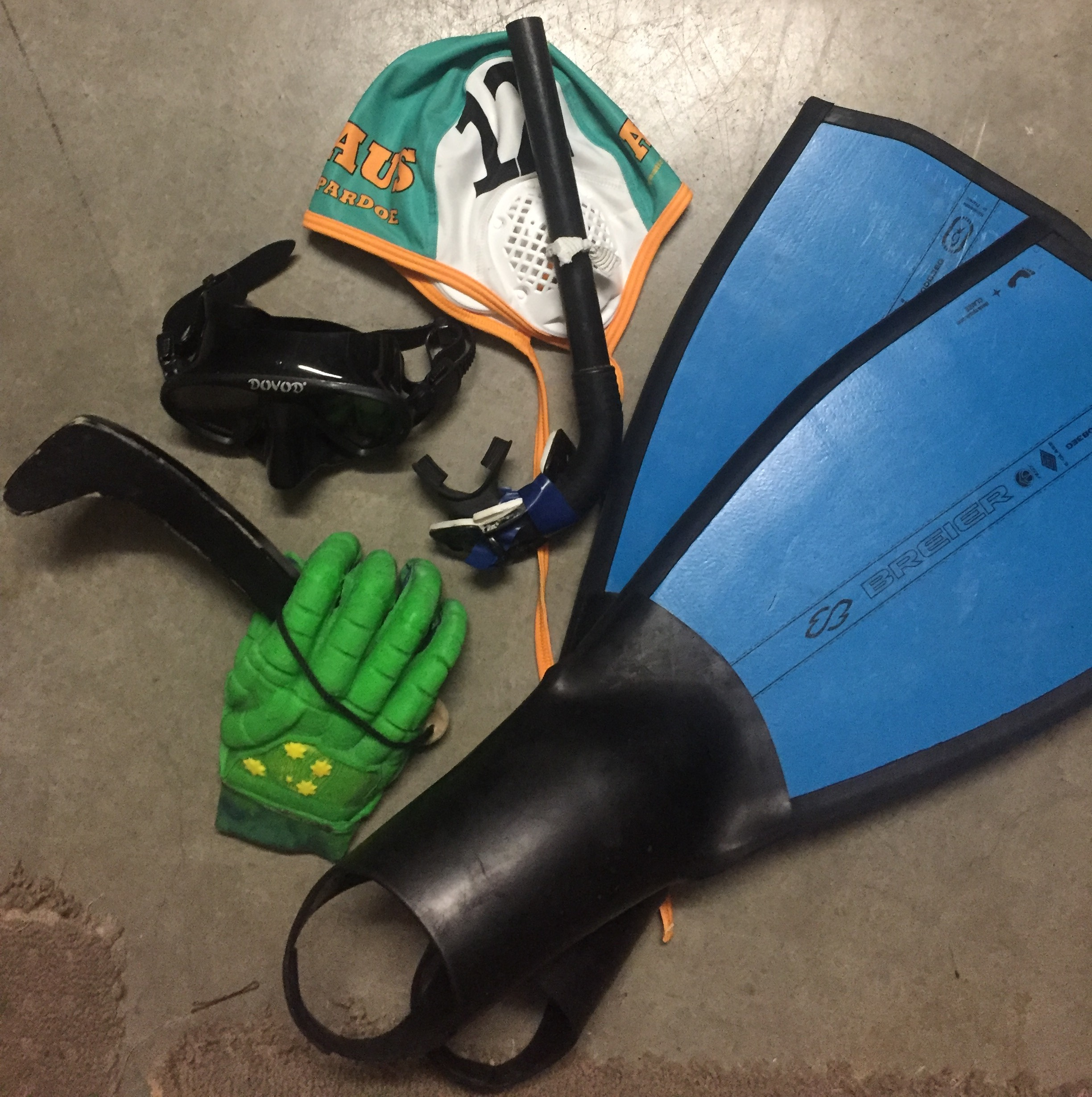 World Level Competition Grade Equipment